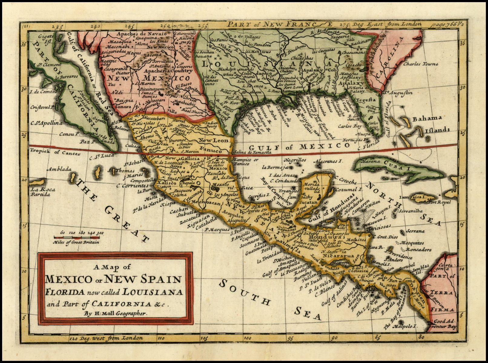 Antique map of Mexico and North America.